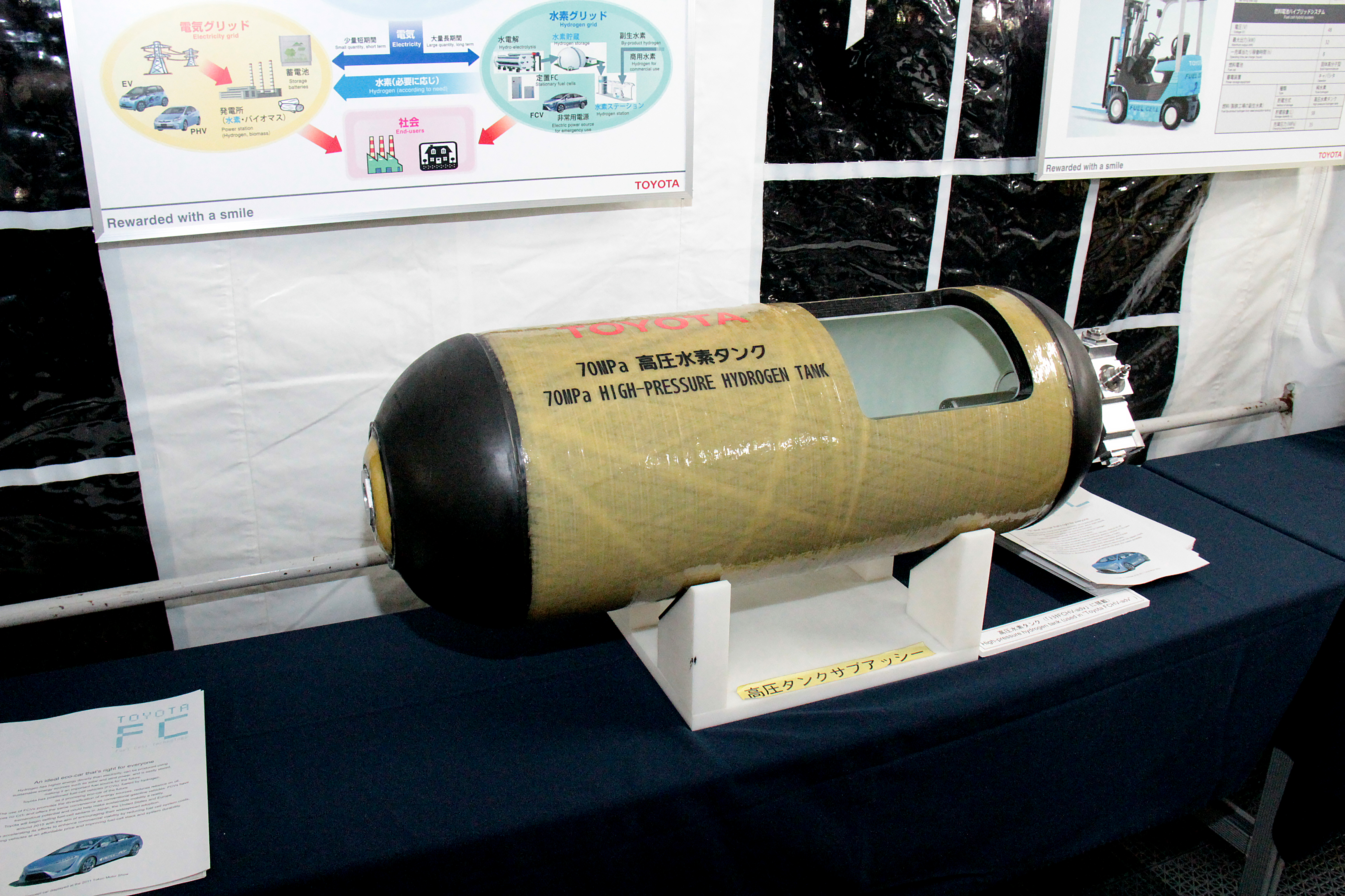 Toyota FCV hydrogen high pressure tank